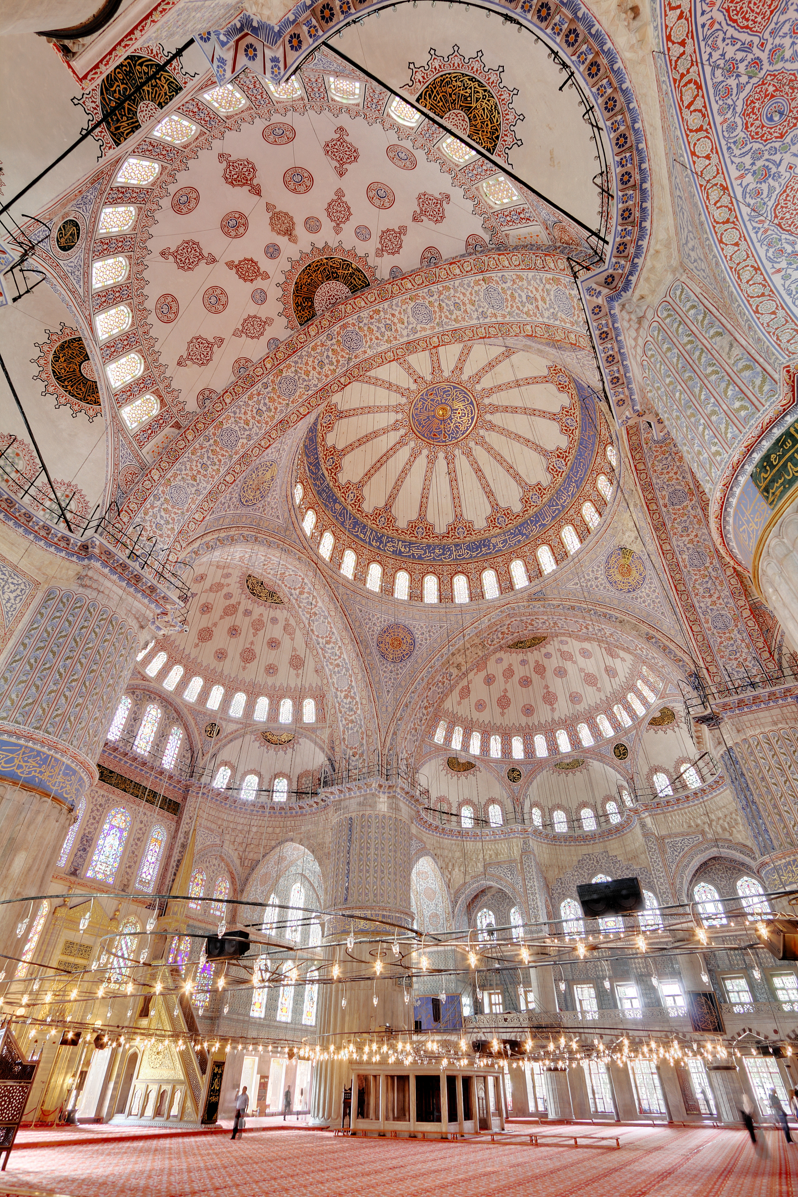 Wide angle view of the interior of the Blue Mosque, in Istanbul, Turkey ; featuring the dome and praying area.